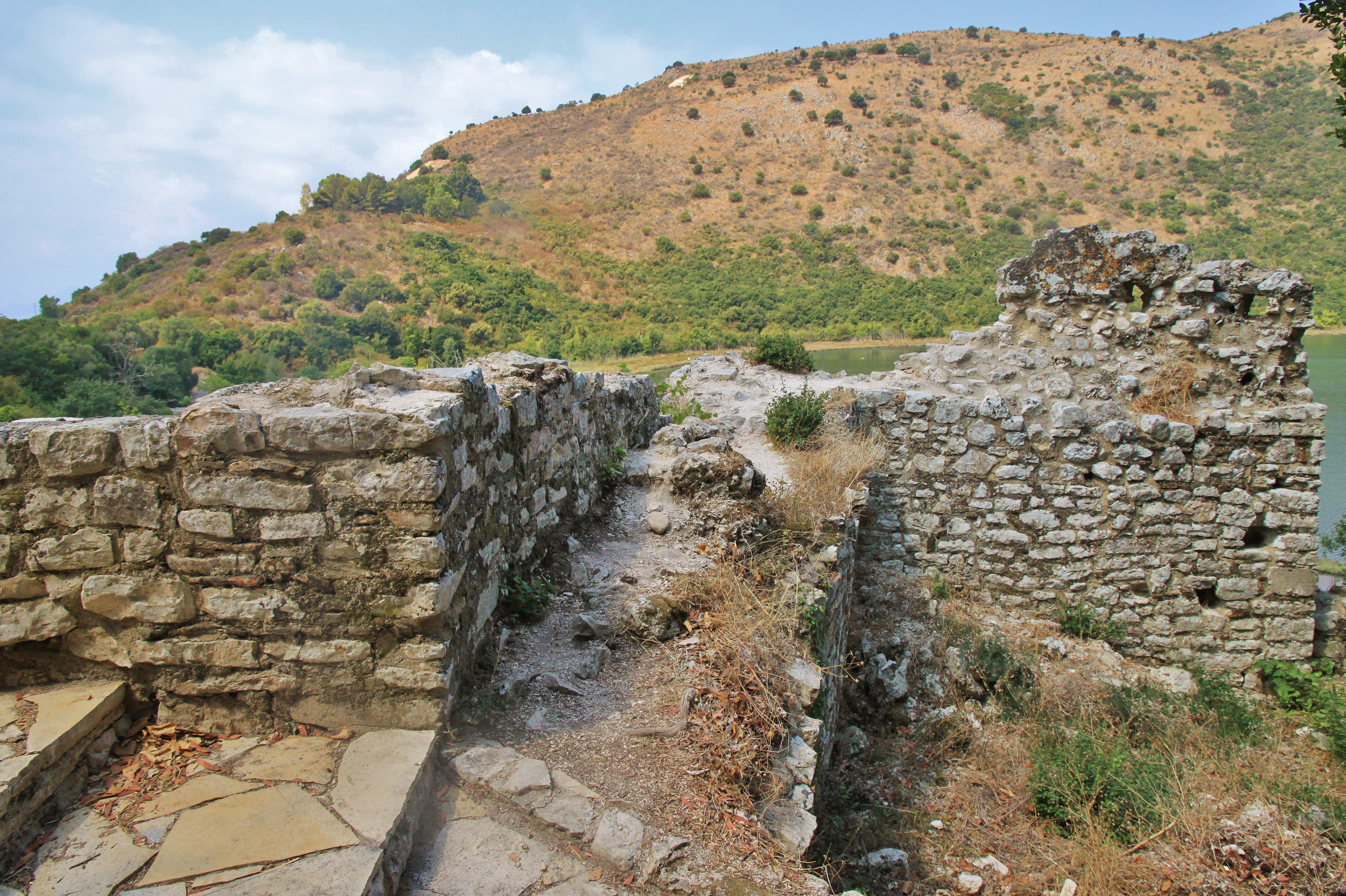 Ruins of the city walls, Buthrotum, Vlorë County, Albania.